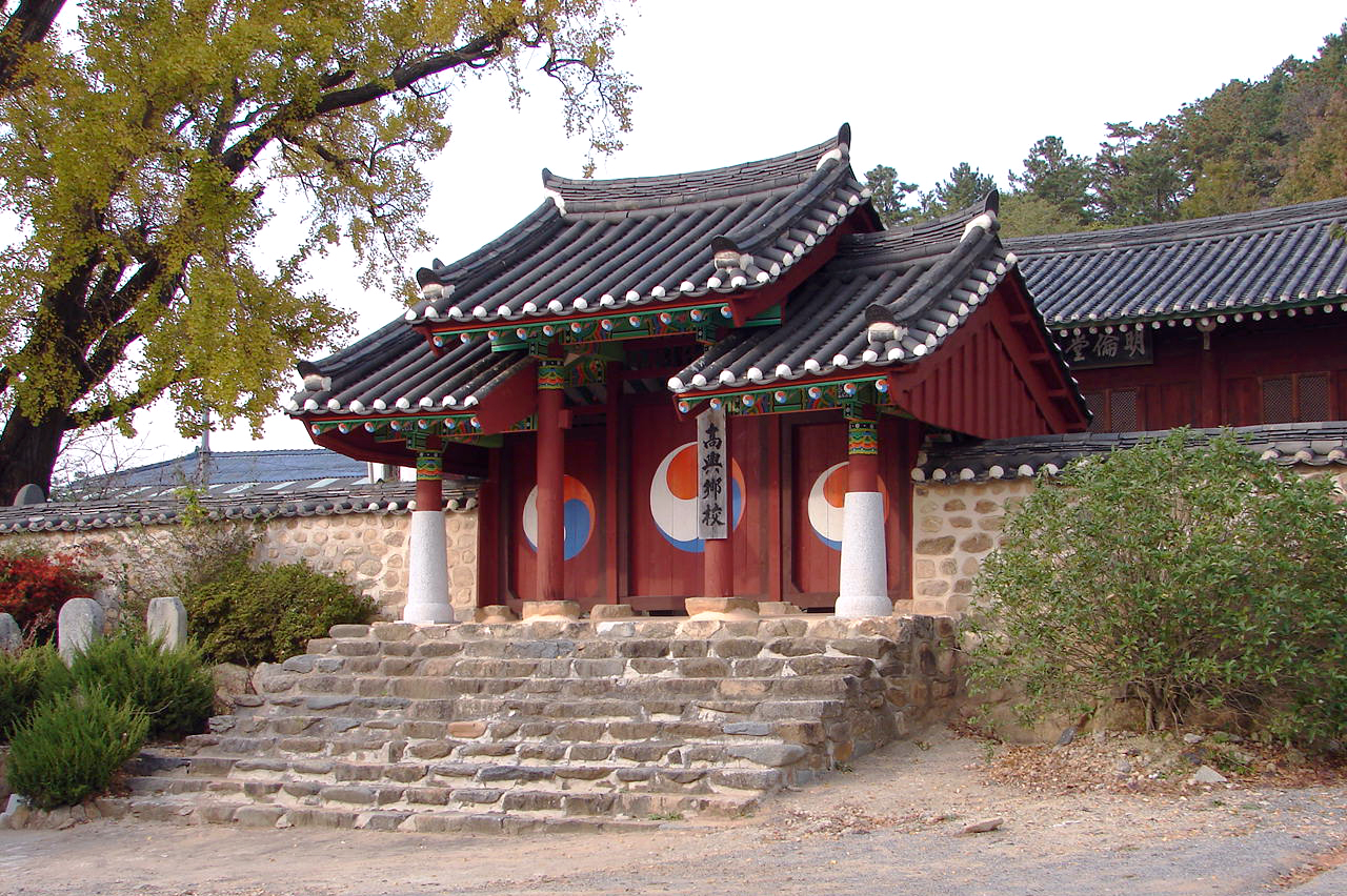 Goheung Hyanggyo (Confucian Shrine and School) Oesam (outer gate) in Goheung South Korea founded in 1441 and relocated to this location in 1695.